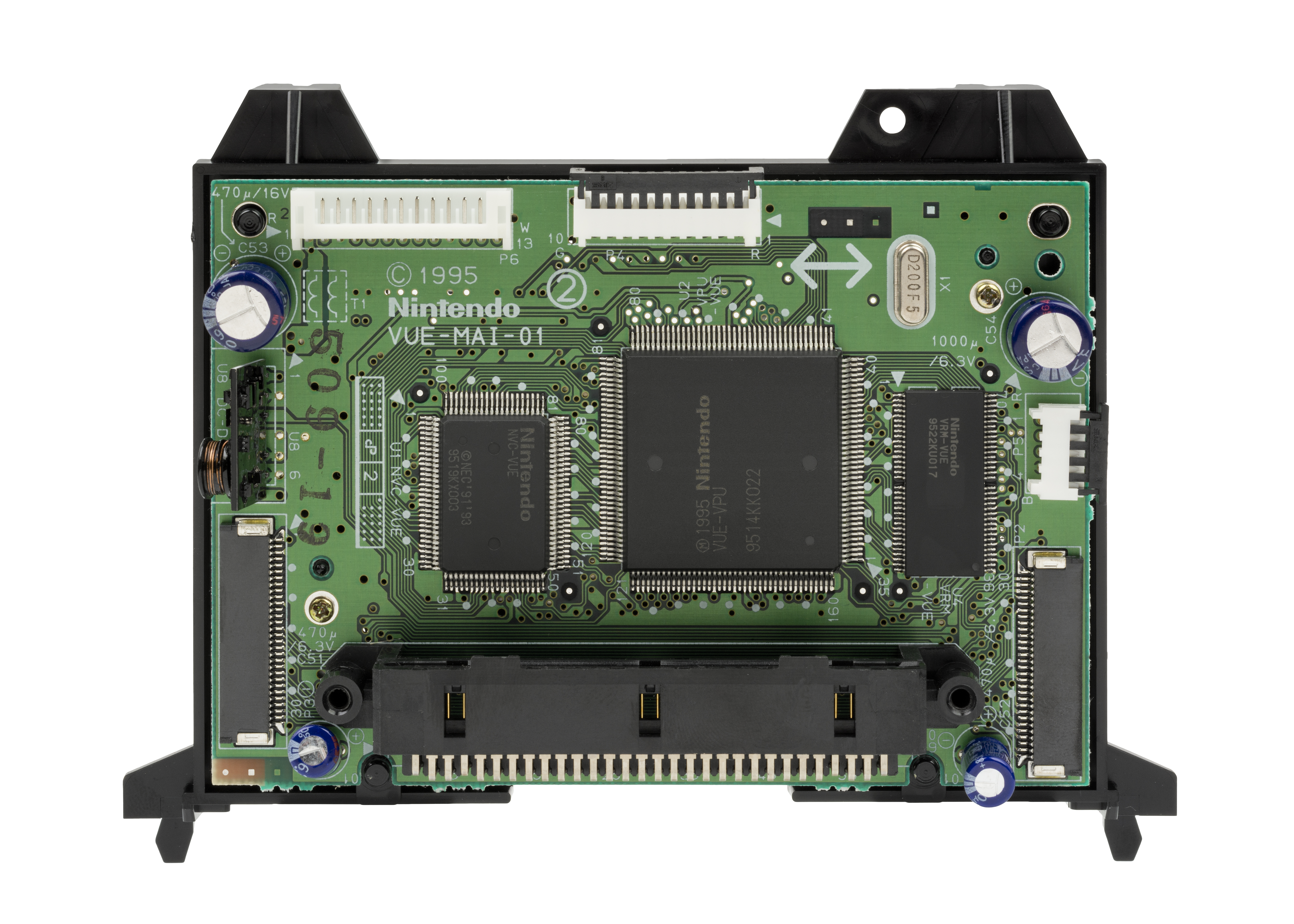 The motherboard for the Nintendo Virtual Boy.